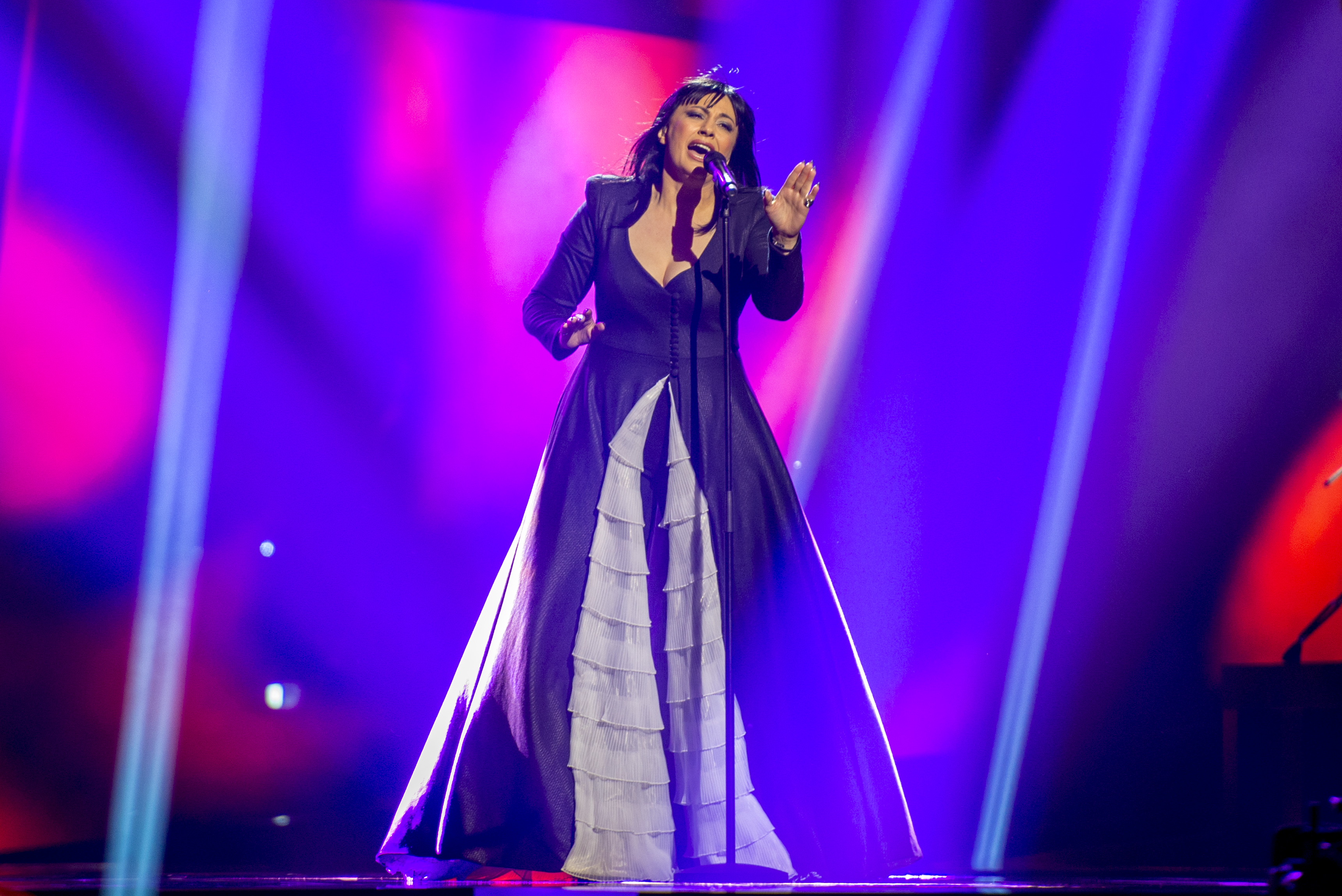 Kaliopi representing North Macedonia with the song "Dona" during a rehearsal before the second semi final of the Eurovision Song Contest 2016 in Stockholm. (Help translate this text)